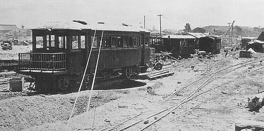 Naha Station after Battle of Okinawa